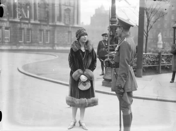 Princess Mary (Princess Royal, daughter of George V and Queen Mary) chatting to a British Army officer in Belfast, Co. Antrim. She and her husband Viscount Lascelles paid a three day whirlwind visit to Belfast that included visits to Belfast Rope Works; Harland & Wolff; opening a hospital; State dinners; medal presentations; speeches to the British Legion's Women's section; and meeting Girl Guides and Boy Scouts. p.s. can any Fashionistas among you please have a look at her hat. Is that a Coco Chanel brooch, or was 1928 too early for that? Had appealed to architecture/Belfast buffs for any ideas on the building. Confirmation that this is indeed Belfast City Hall came from ccferrie. Date: Saturday, 13 October 1928 NLI Ref.: IND_H_0982